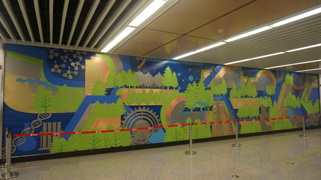 Laodonglu Station art